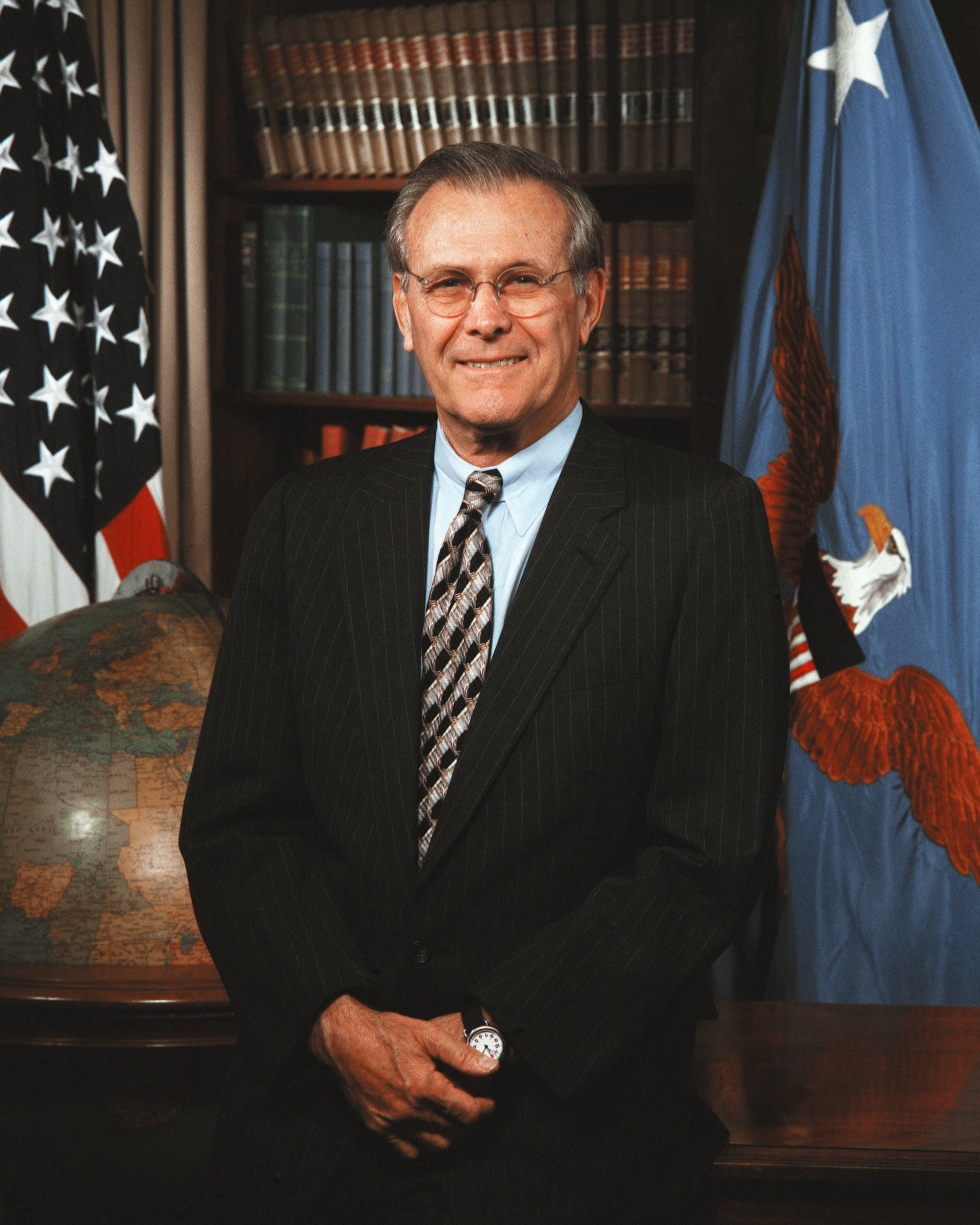 Donald Rumsfeld, United States Secretary of Defense.